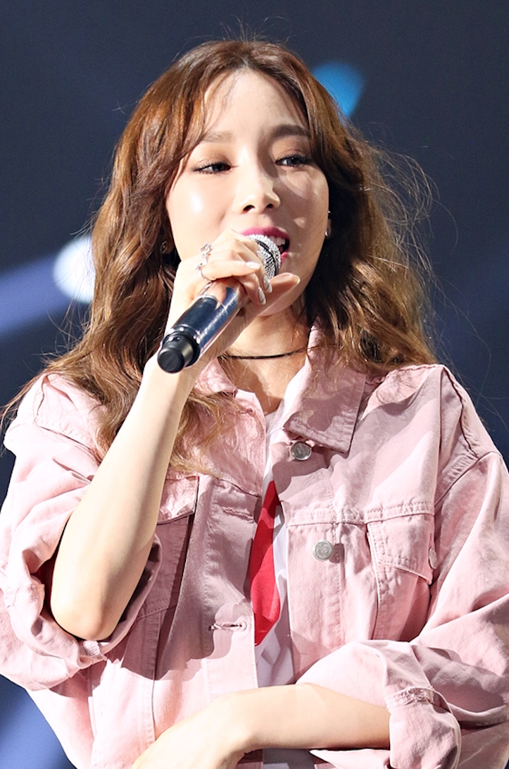 Kim Tae-yeon in Best of Best Concert on April 21, 2018.